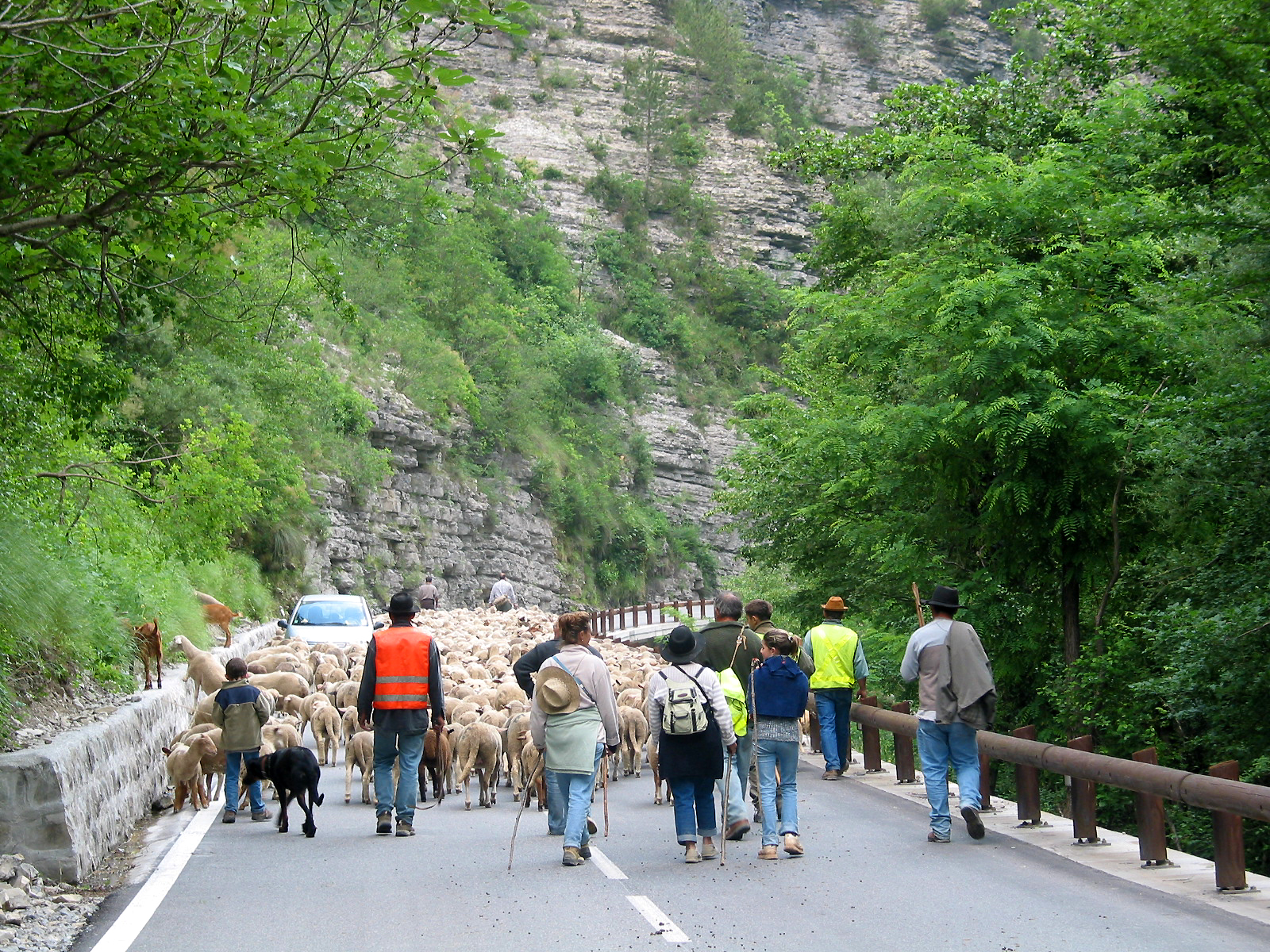 Rigaud, Alpes-Maritimes (France), the Transhumance in the gorges du Cians.